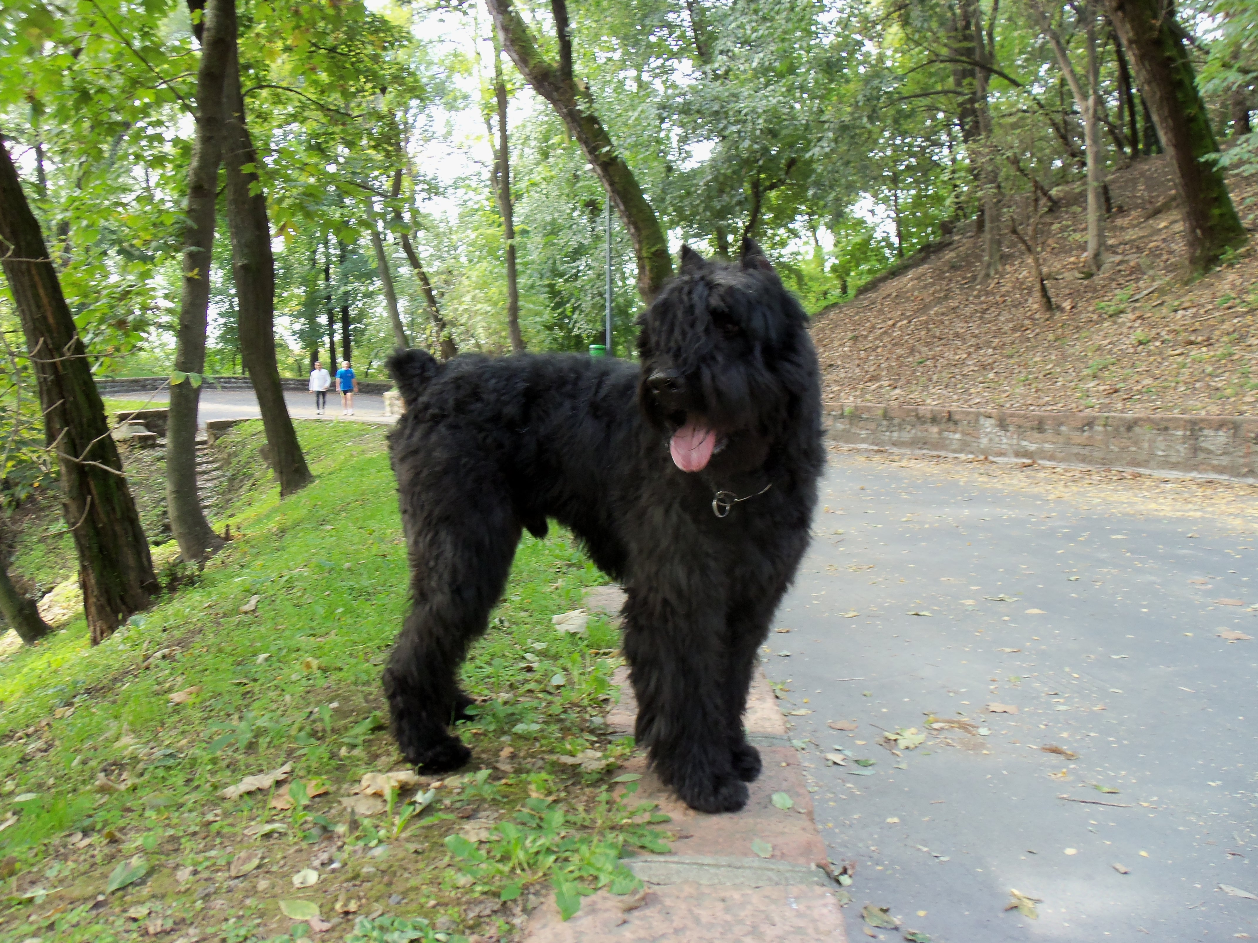 Sheepdog (cow) Bouvier des Flandres: Spyke dei "Grandi Saggi"